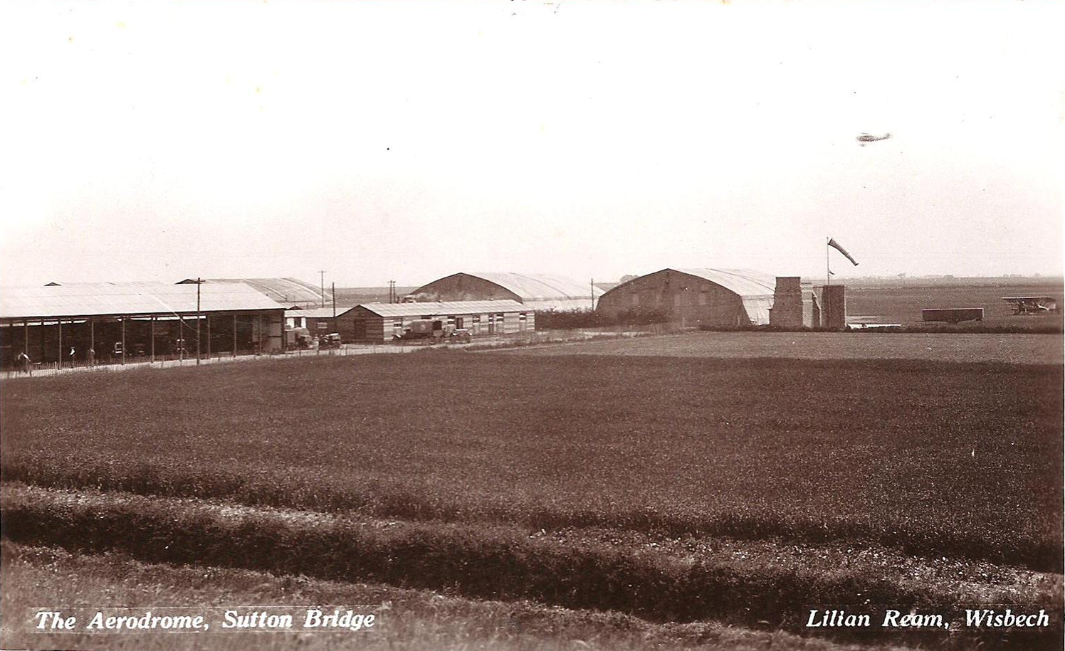 Air Ministry airfield site R.A.F. Practice Camp Sutton Bridge in Sutton Bridge, Lincolnshire, England, late 1920s. View from west side airfield embankment main entrance. Photograph partially shows from the airfield's main entrance (left side) the Mechanical Transport (MT) Shed and on-site airfield road leading down towards four Bessonneau hangars and the airfield ground beyond. Visible on the right the airfield windsock and two Royal Air Force biplanes, one stationary and one inflight, both probably RAF Armstrong Whitworth Siskin IIIA or RAF Bristol Bulldog Mk. IIA biplanes. From its establishment in September 1926, R.A.F. Practice Camp Sutton Bridge airfield site continued to be expanded; from January 1932 it was officially renamed to No. 3 Armament Training Camp Sutton Bridge, subsequently No. 3 Armament Training Station Sutton Bridge, and later simply RAF Sutton Bridge. Object location52° 45′ 33.82″ N, 0° 11′ 34.88″ E